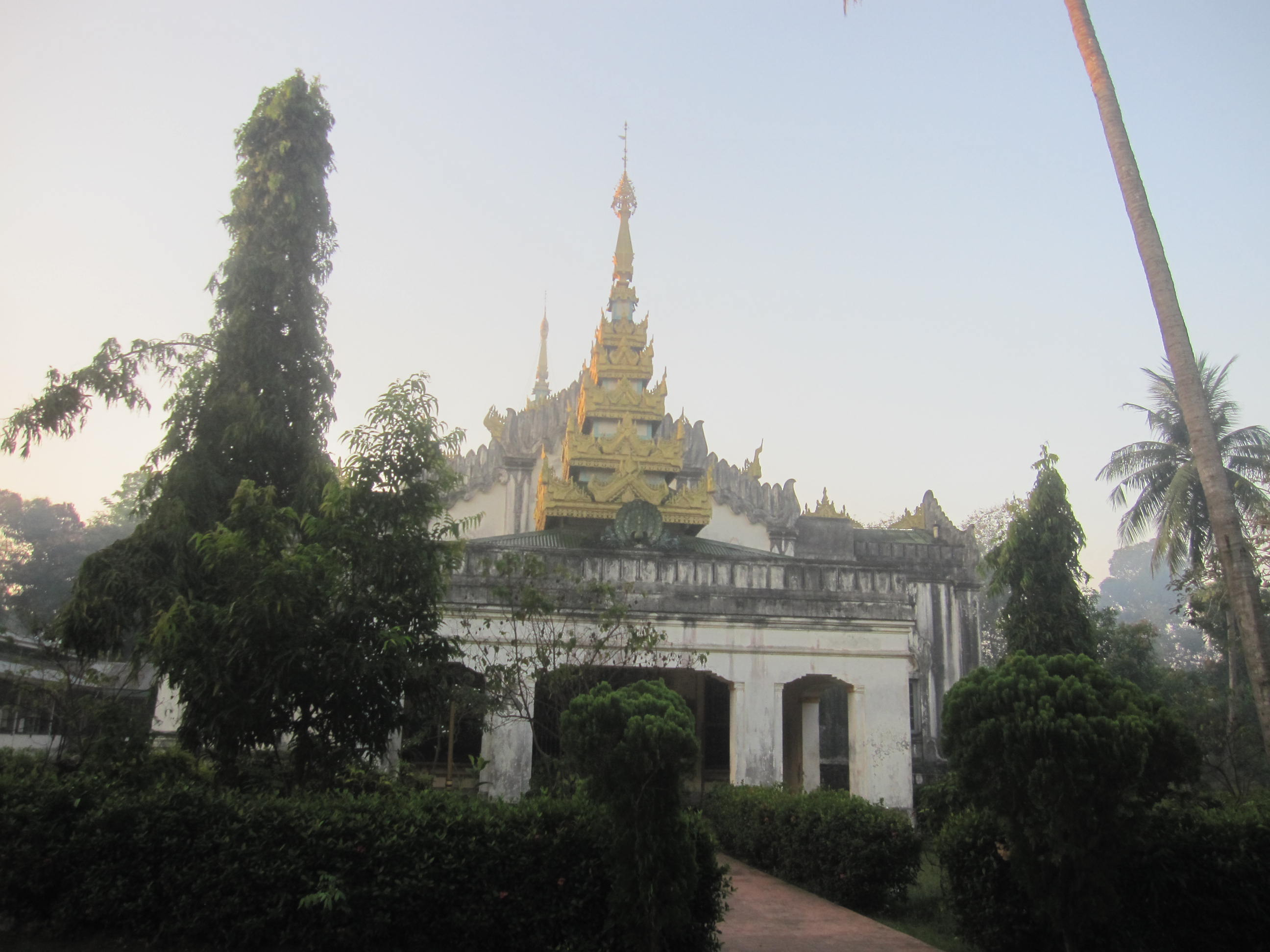 Dhamma Hall, University of Yangon